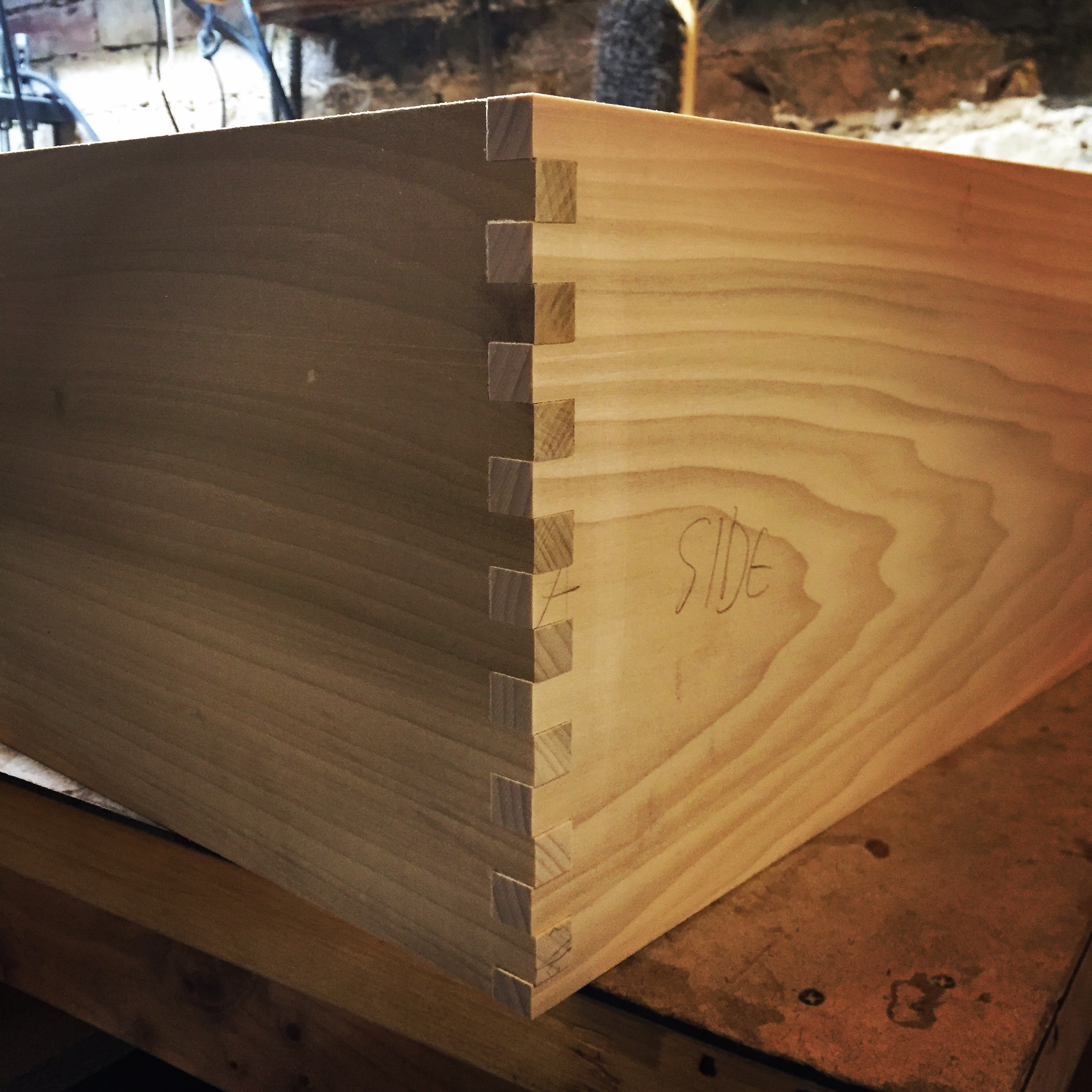 Box joint for a dresser drawer